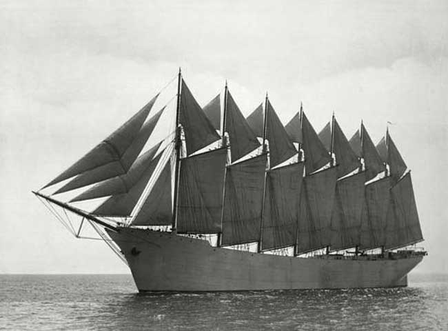 Schooner 'Thomas W. Lawson'. The ship was lost on 1907-12-14 near the Scilly Isles Hellweather's Reef, killing 16 of her 18 crew and causing a first major case of oil pollution. This picture is said to have been taken during her maiden voyage. See Thomas W. Lawson (ship) and Thomas W. Lawson.